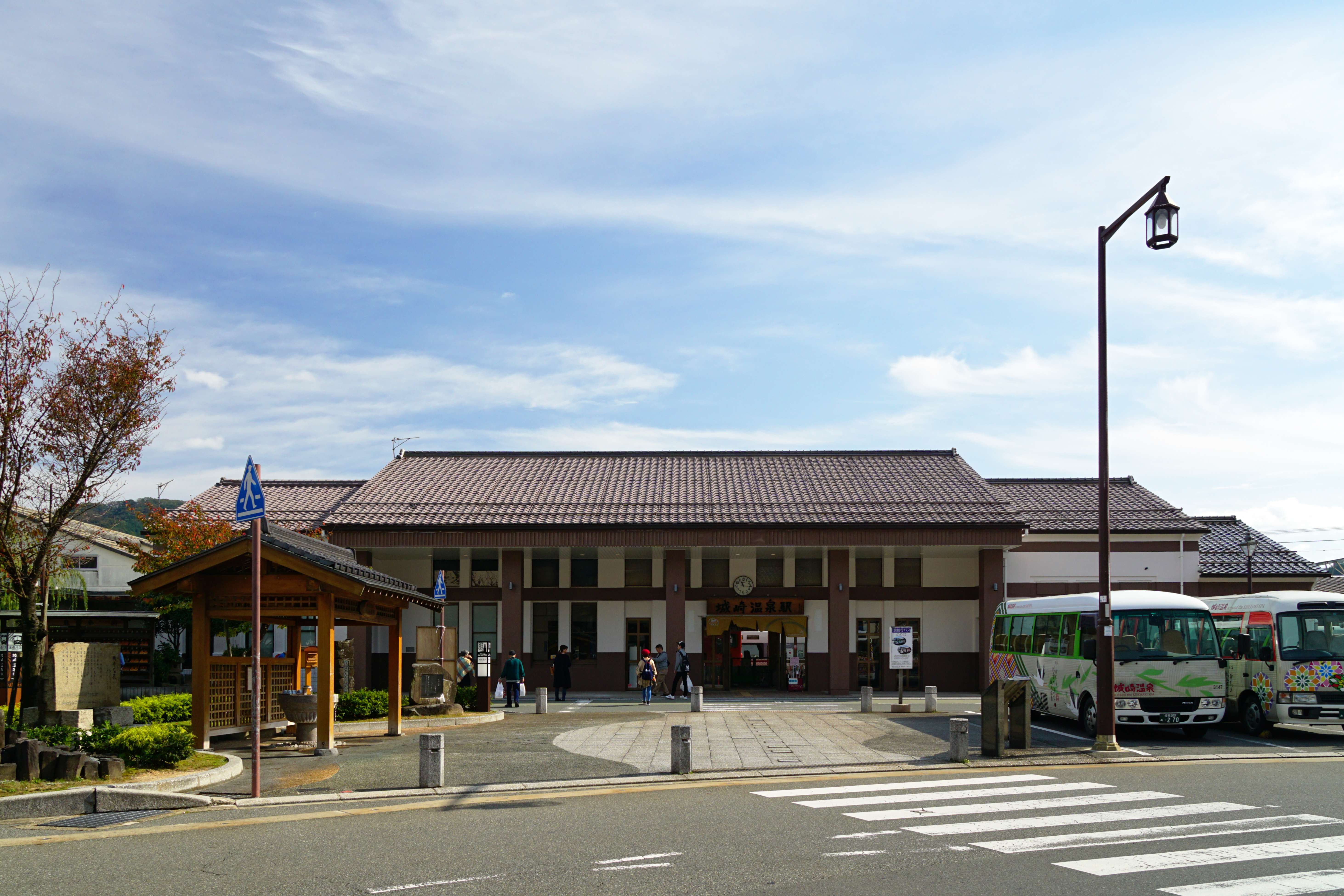 Kinosaki Onsen Station in Toyooka, Hyogo prefecture, Japan